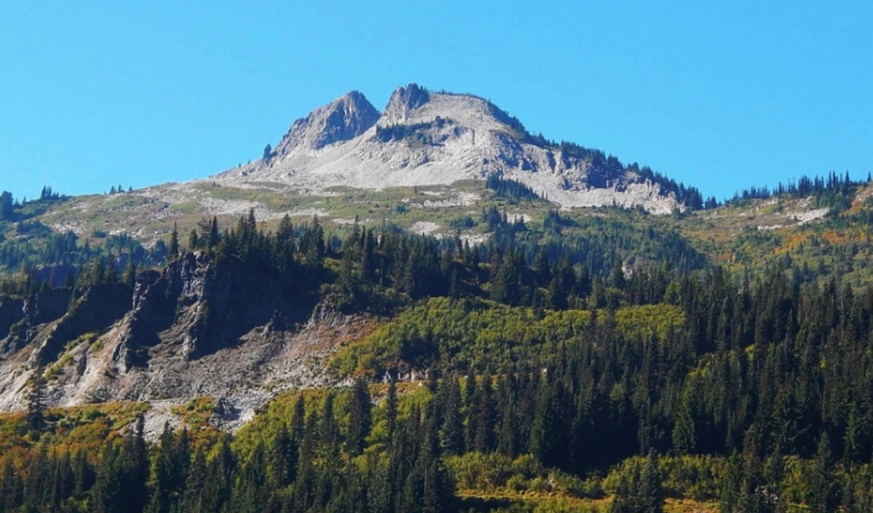 Foss Peak (aka Manatee Mountain) in the Tatoosh Range of Mount Rainier National Park seen from Stevens Canyon Road